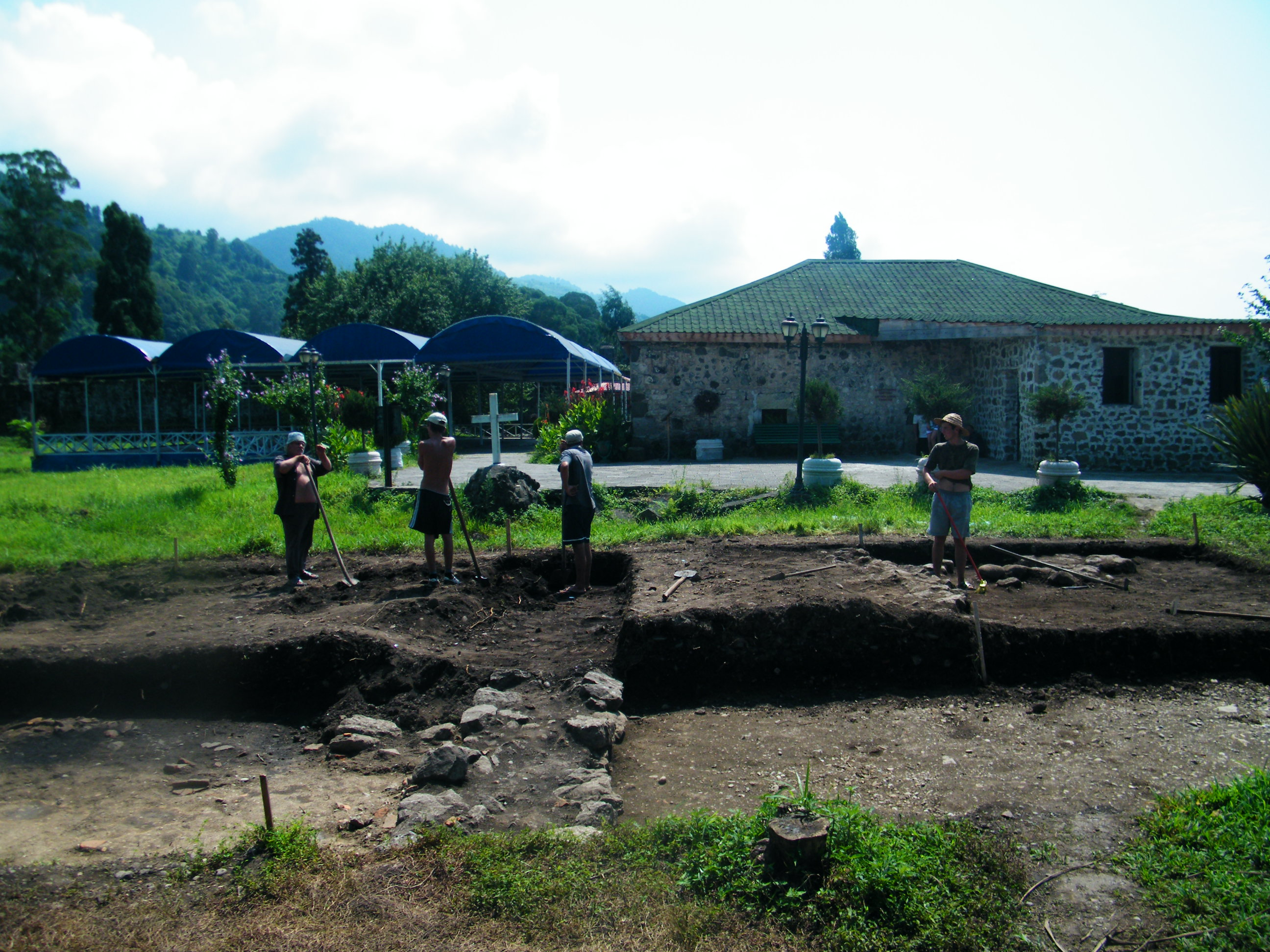 Archaeological expedition in Gonio